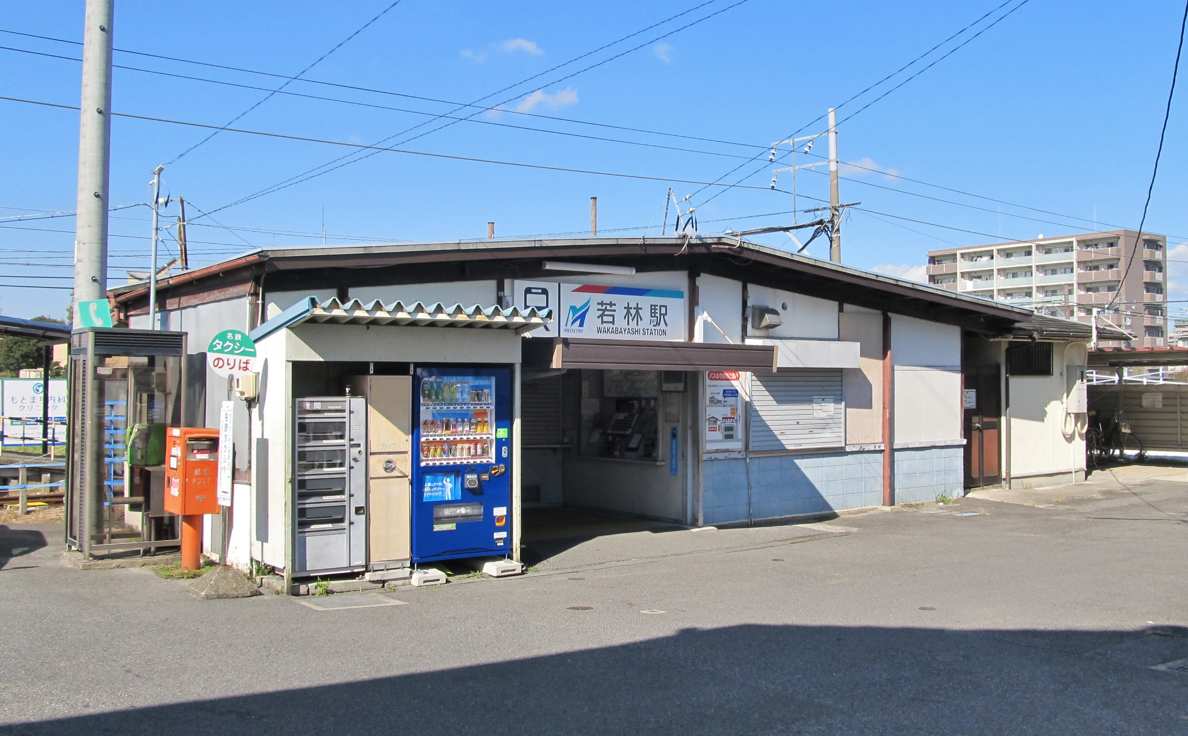 Nagoya Railroad Mikawa Line Wakabayashi Station Building